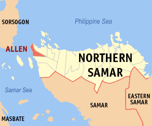 Map of Northern Samar showing the location of Allen